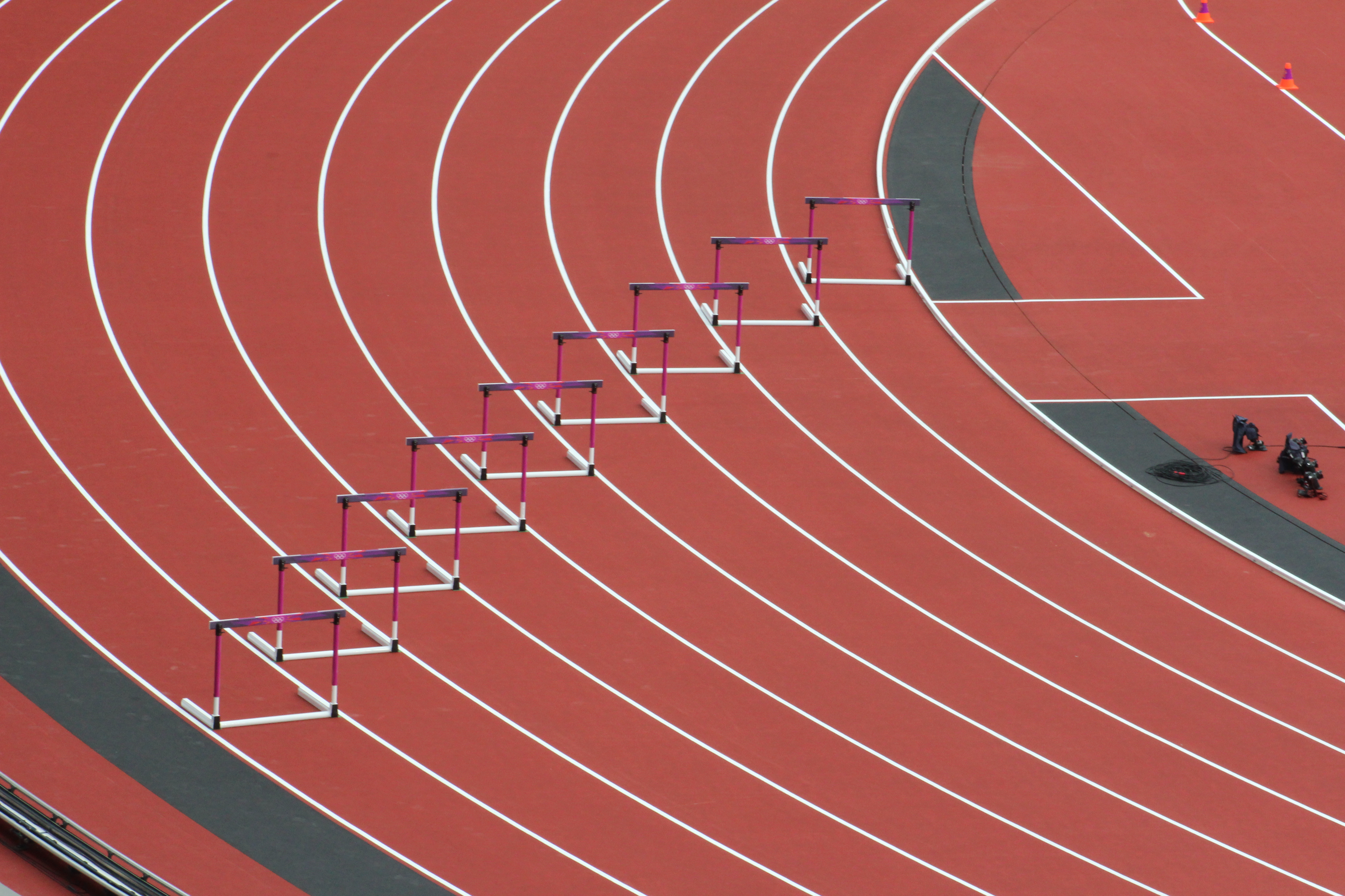 London Olympics 2012 - Friday August 3rd in the Olympic Stadium. Some shots around the stadium. 400 m. hurdles heats.